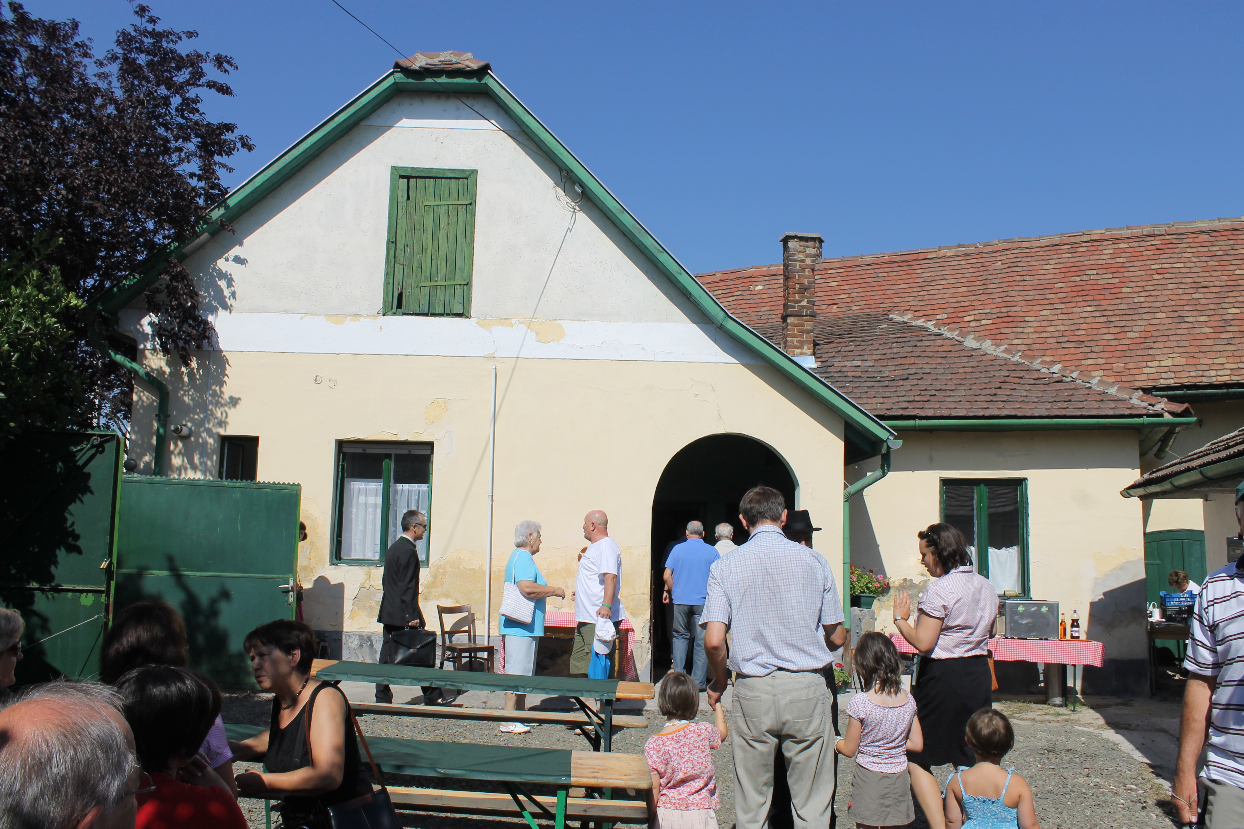 Sváb Sarok (Fő út 104.) az avatása előtt